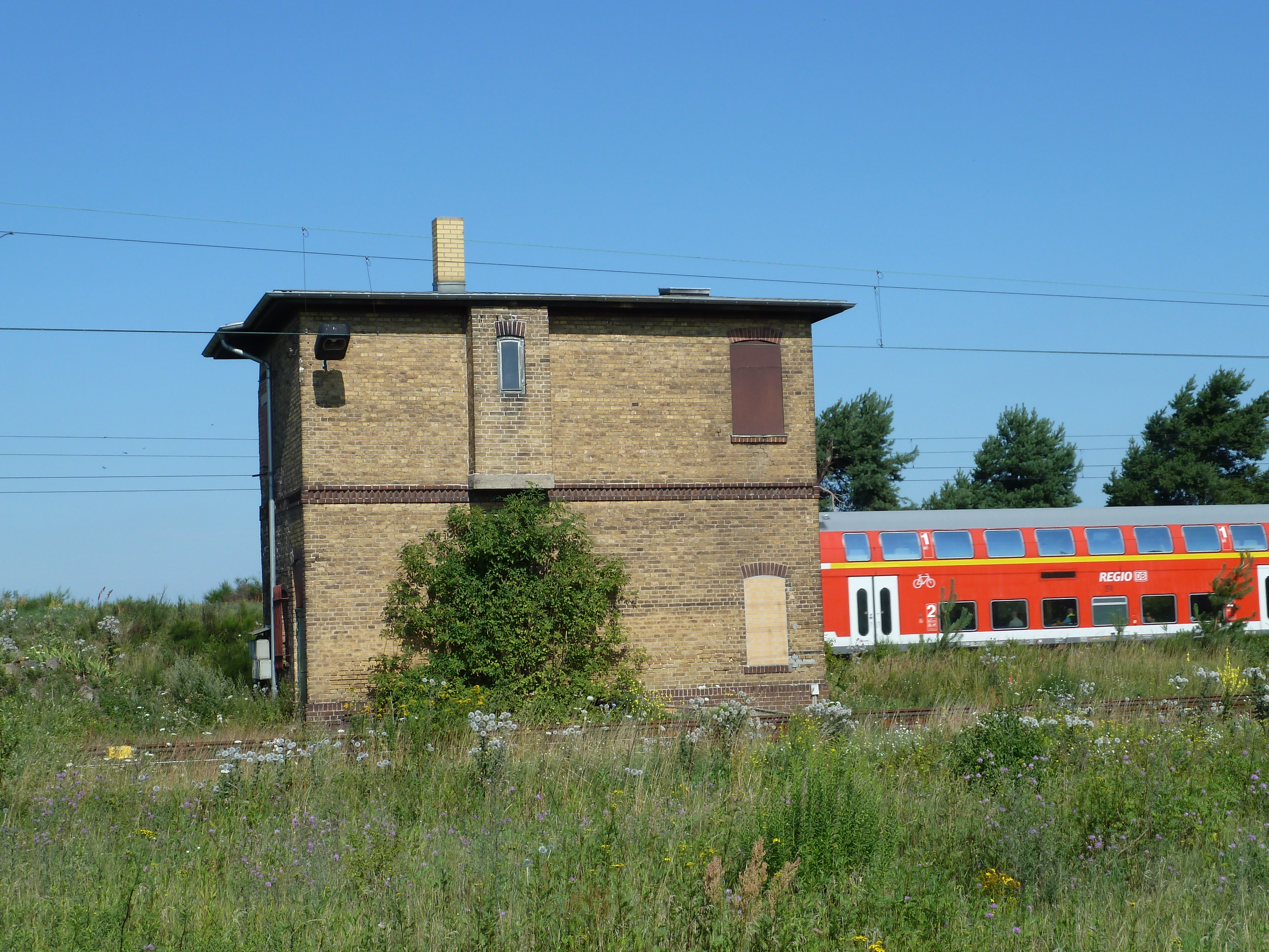 Bahnhof Großbeeren, former switch tower